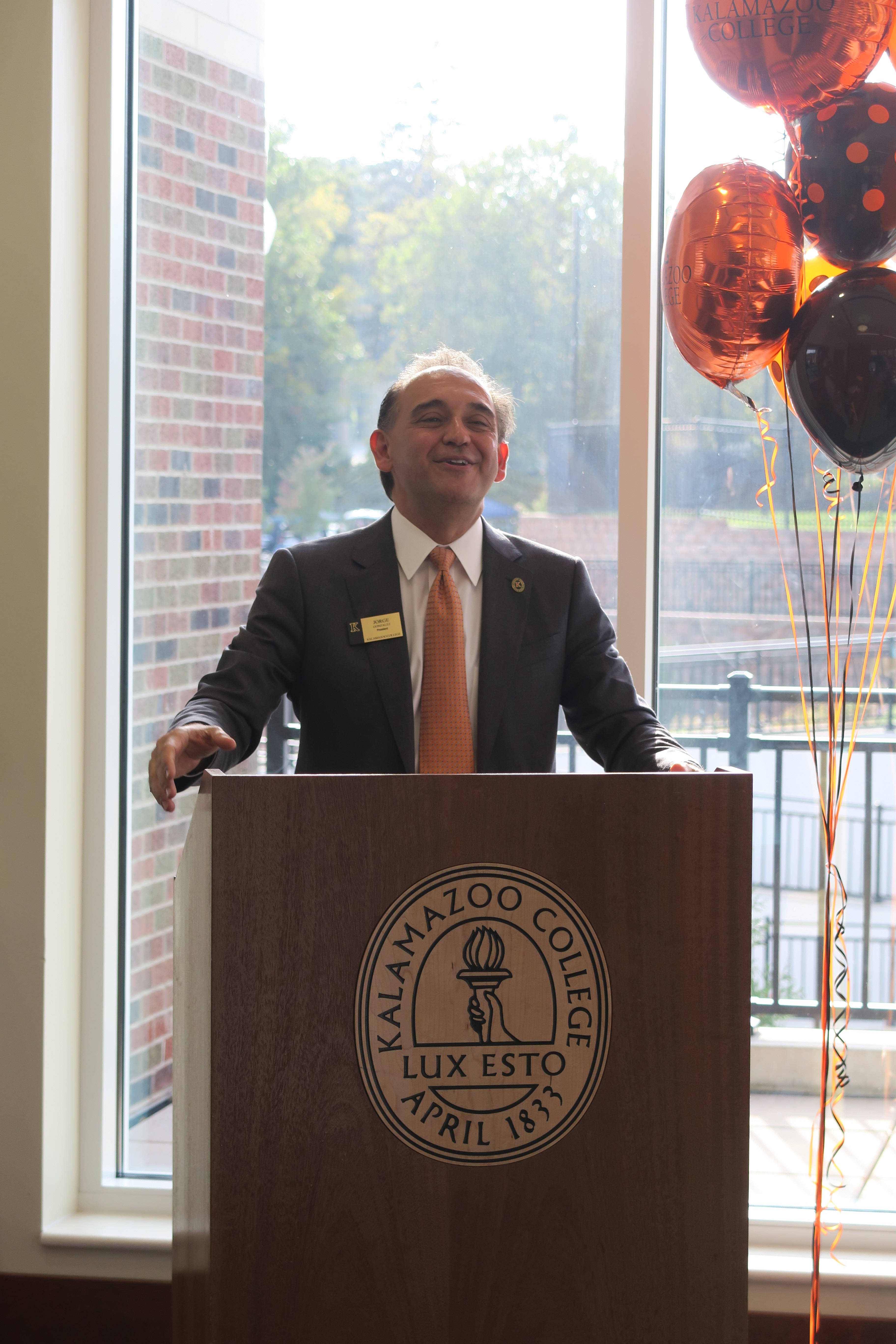 Jorge G. Gonzalez, 18th President of Kalamazoo College. Photo taken as President Gonzalez addressed an alumni gathering at the Kalamazoo College Fieldhouse on homecoming weekend, October 2016.